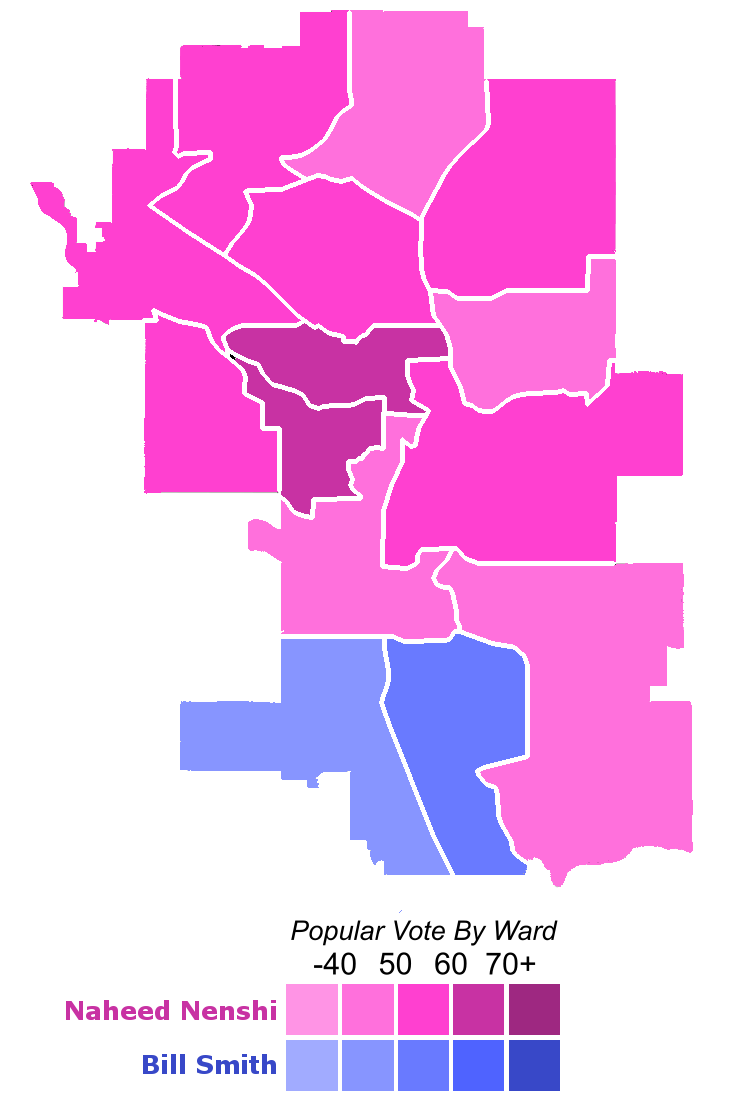 Calgary Mayoral election, 2017 results by ward